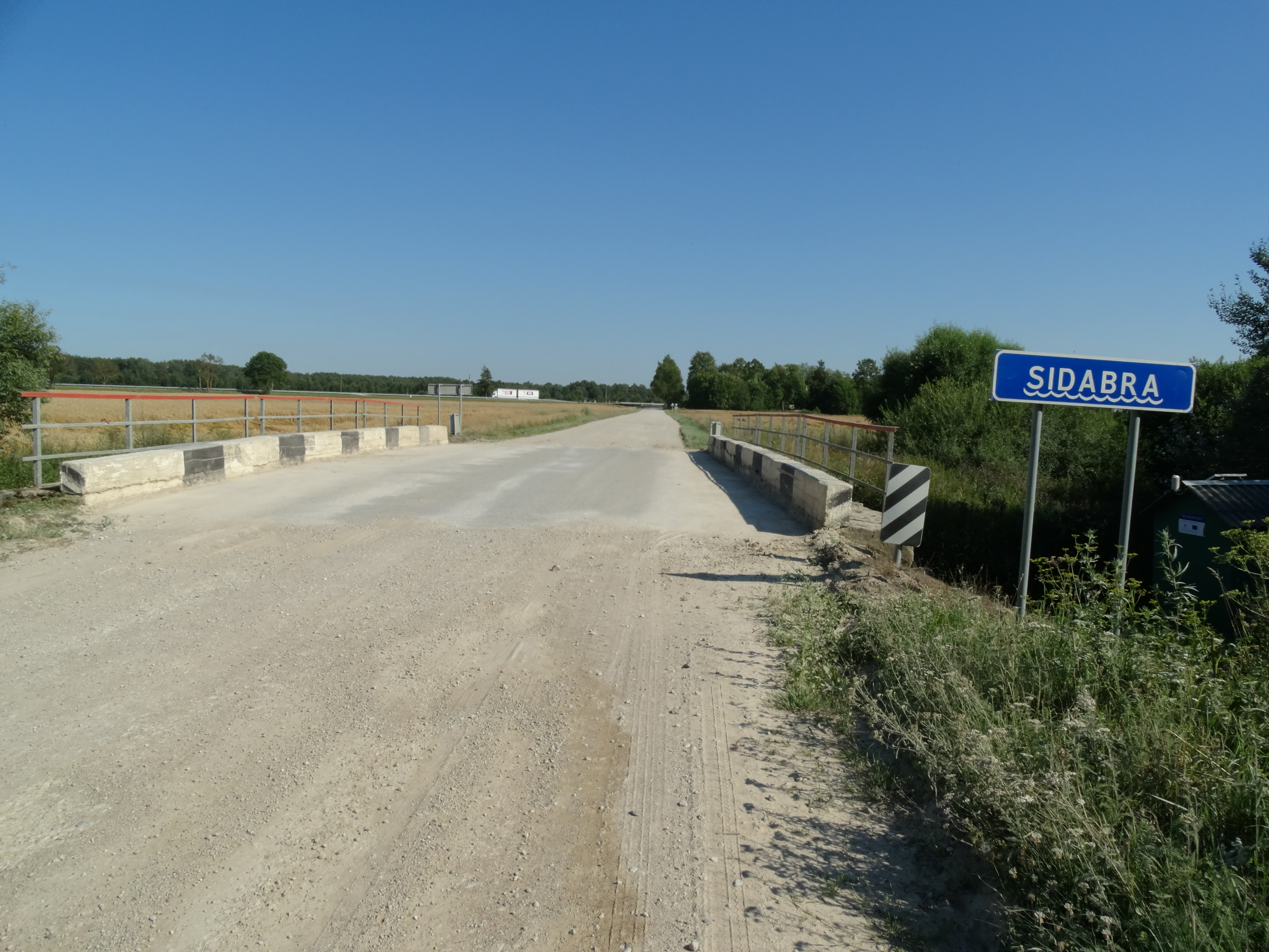 Sidabra Stream (tributary of Platonis), Joniškis district, Lithuania